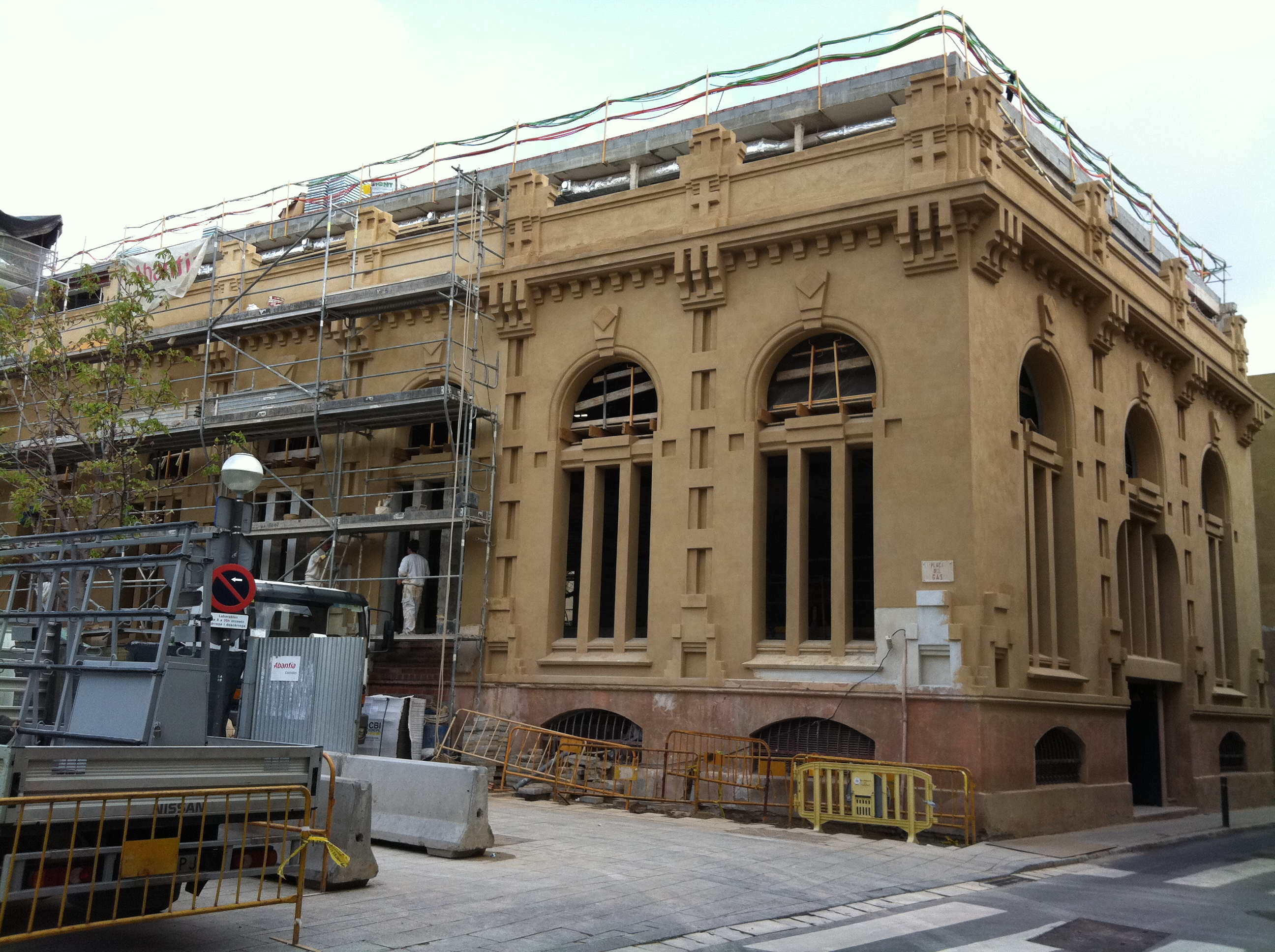 Preparing works for the Gas Museum of Sabadell, Catalonia